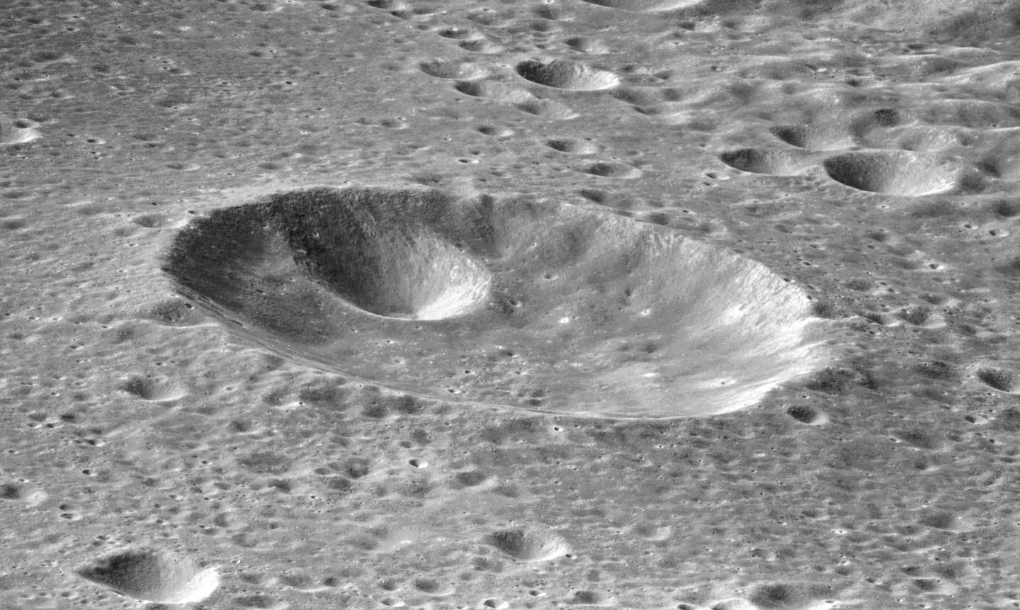 Oblique view of Fischer (within Mendeleev), on the far side of the moon.